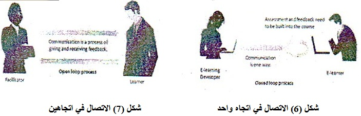 ( Description ) الاتصال في اتجاه واحد الاتصال في اتجاهين nullOther versions null ) ) الاتصال في اتجاه واحد الاتصال في اتجاهين